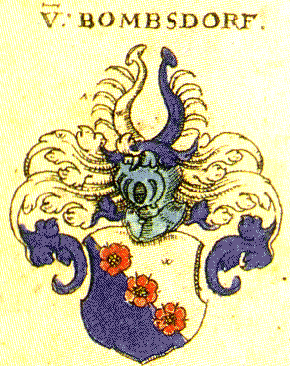 Coat of Arms of the noble family von Bomsdorff from Germany